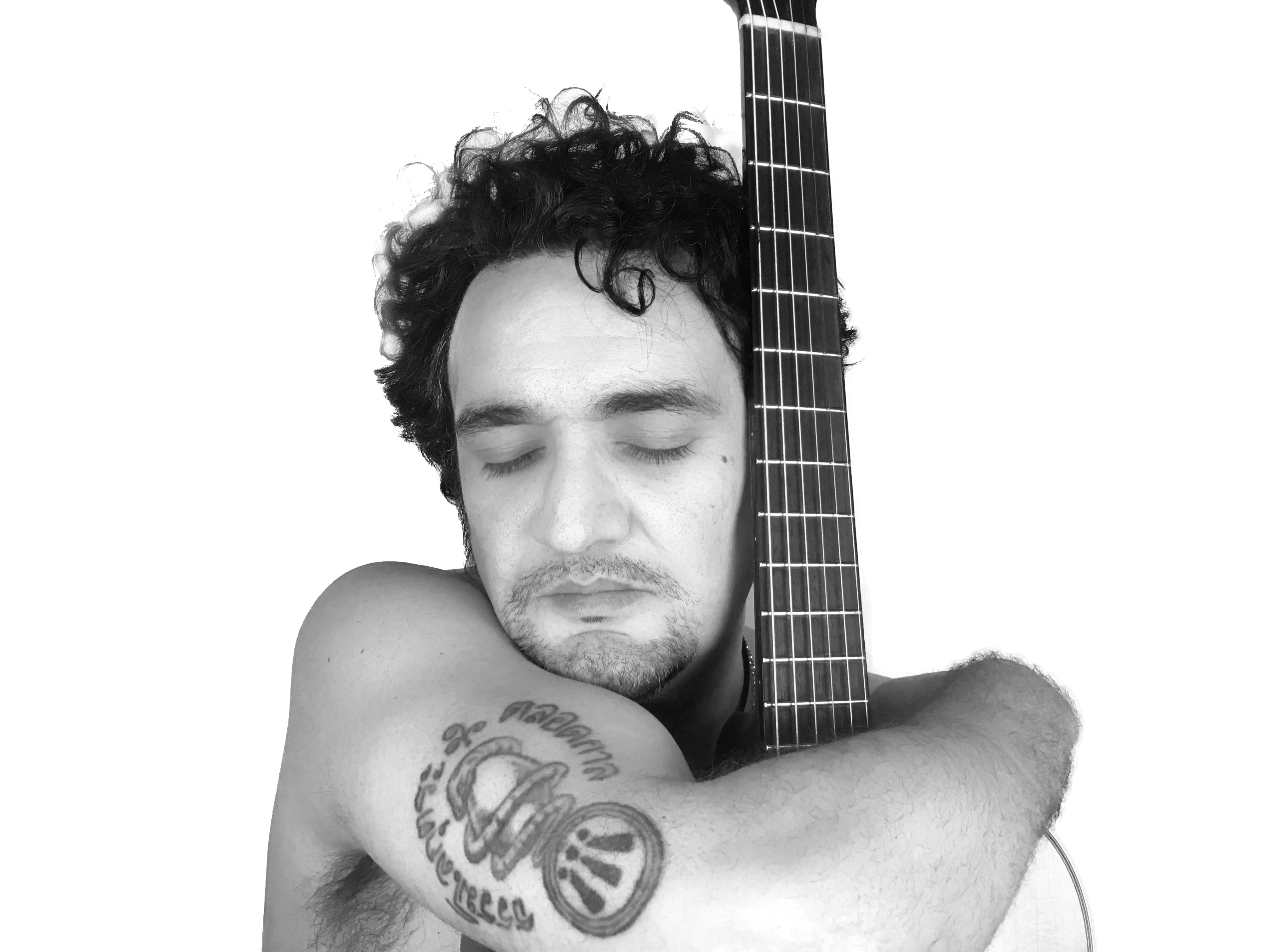 Portrait cover art from Tim Arnold's 16th solo album 'I Am For You'